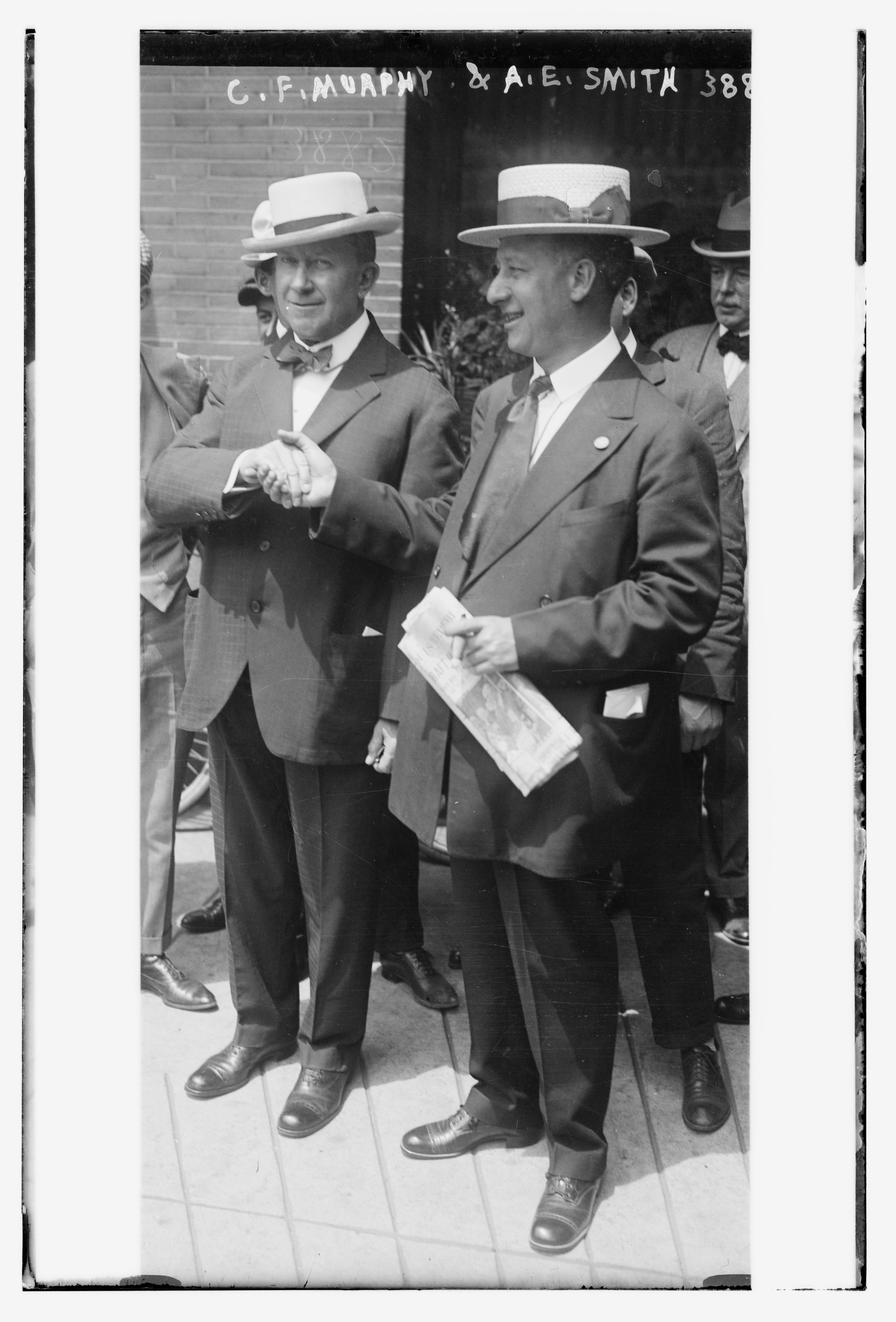 Title: C.F. Murphy and A.E. Smith Abstract/medium: 1 negative : glass ; 5 x 7 in. or smaller.